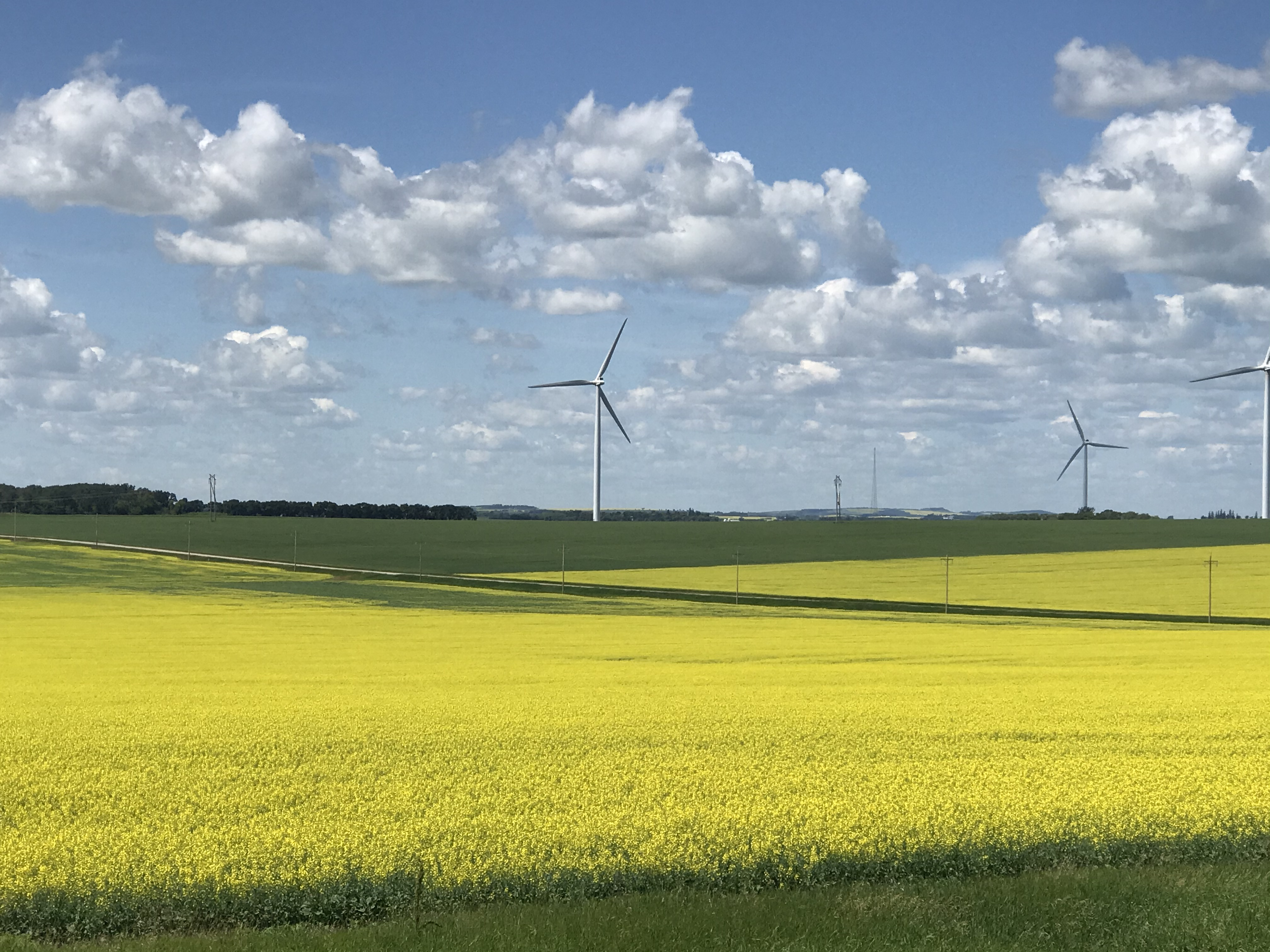 This is the beautiful milky yellow colored canola field with wonderful wind mills in the landscape located in Rural Municipality of Lorne in Manitoba, Canada